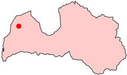 Location map of Piltene city, Latvia.